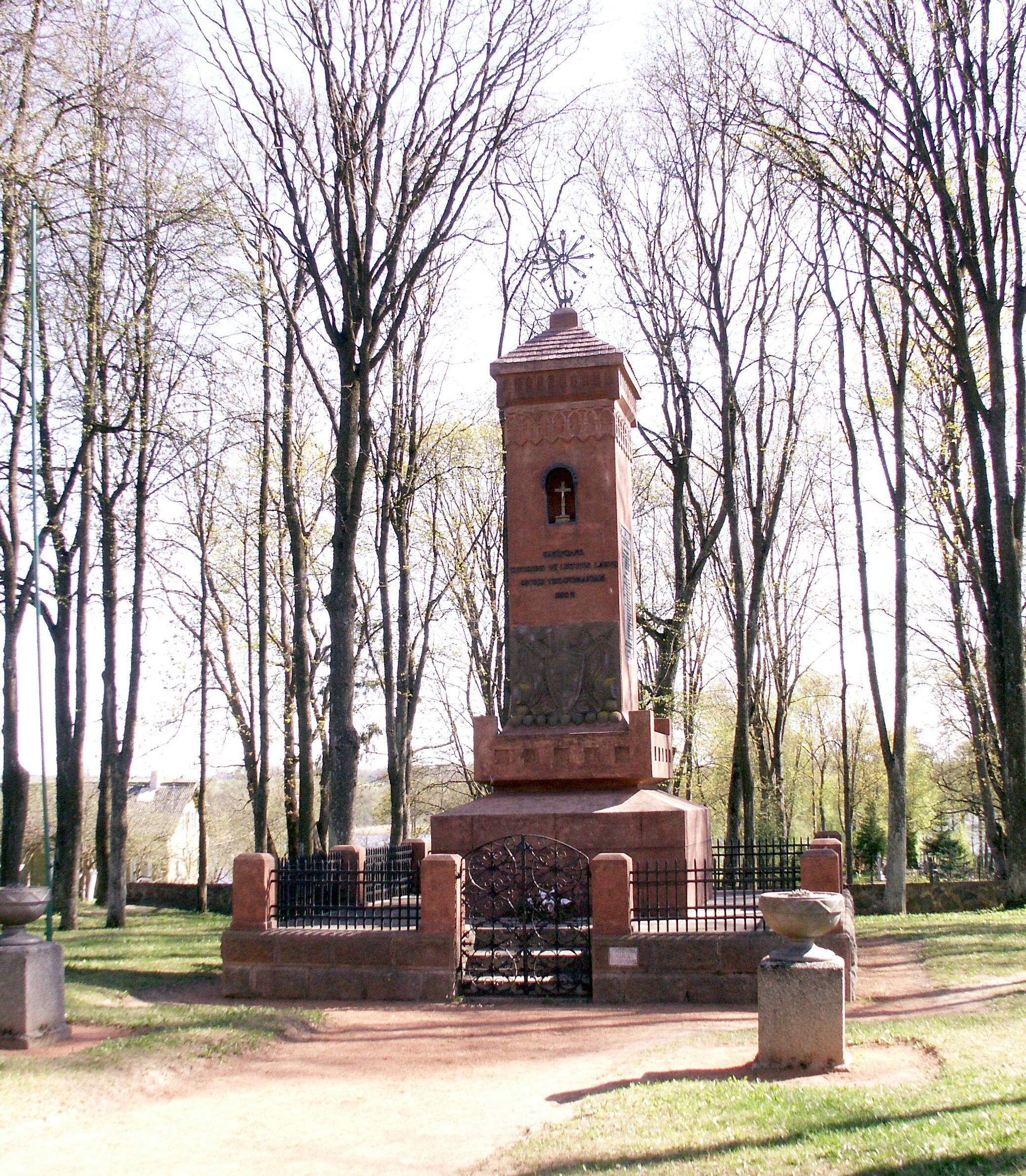 Obelisk in Giedraičiai, Lithuania